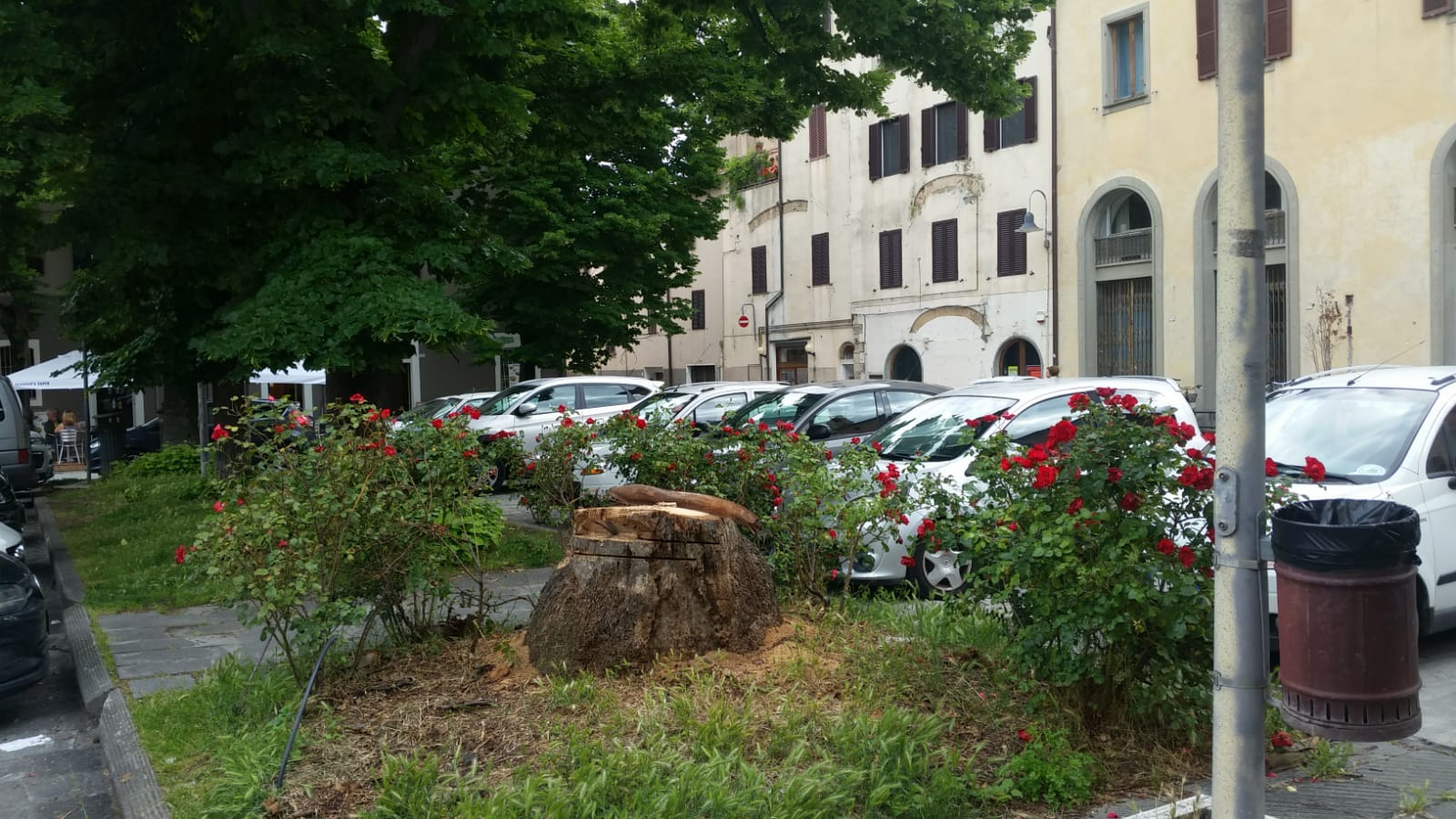 Piazza della Palma in Grosseto, Tuscany